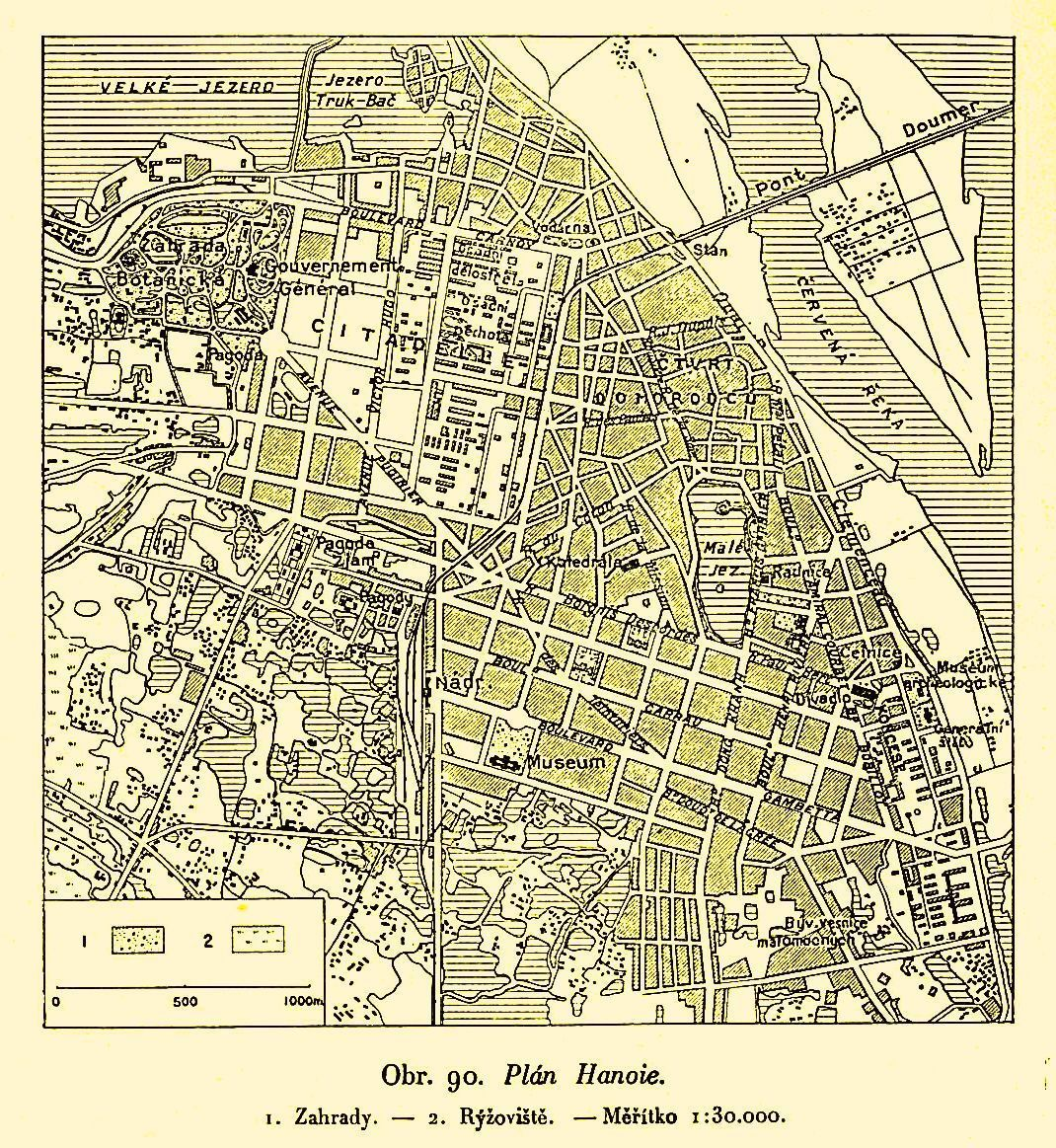 Map of Hanoi after the First World War. The descriptions are in Czech.